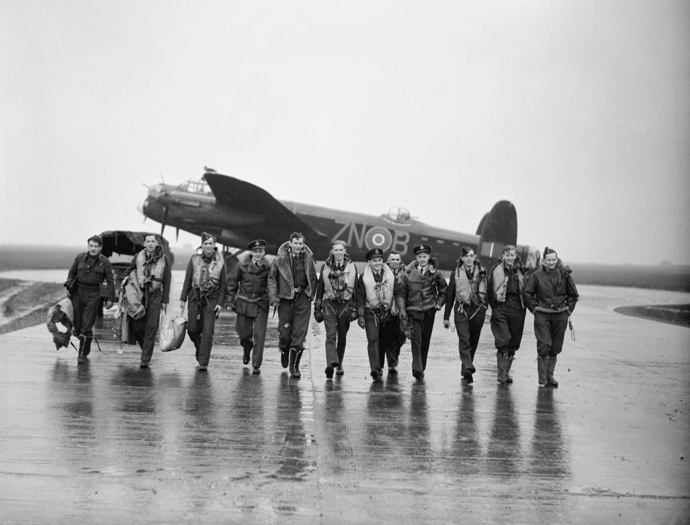 Aircrew of No. 106 Squadron photographed in front of a Lancaster at Syerston, Nottinghamshire, on the morning after the raids on Genoa, 22-23 October 1942. Crews of No 106 Squadron photographed in front of a Lancaster at Syerston, Nottinghamshire, on the morning after the raids on Genoa, 22-23 October 1942. Fourth from the right is Pilot Officer David Shannon, a future 'Dambuster' and leading light of No 617 Squadron.